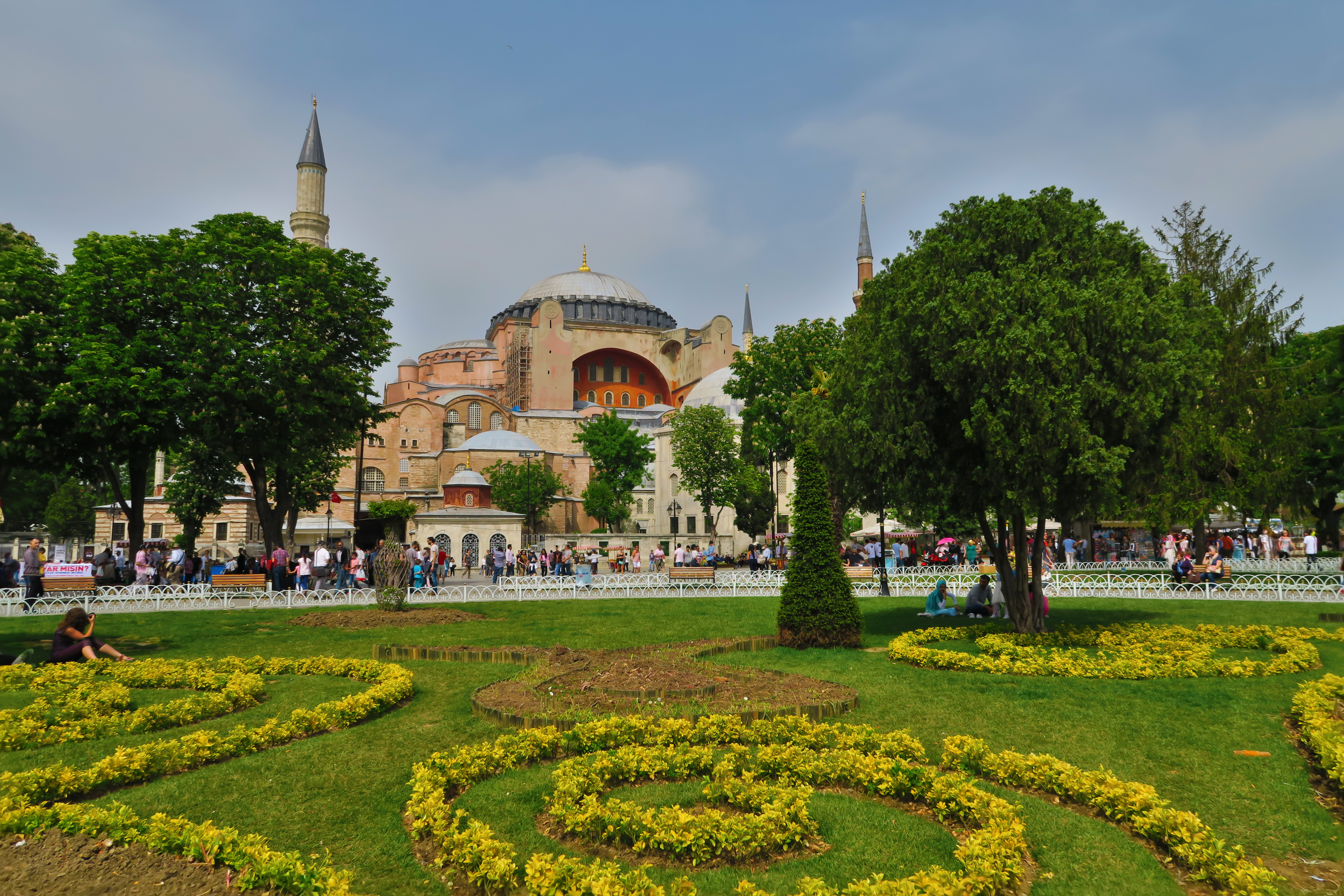 Hagia Sophia in Istanbul